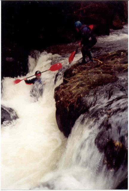 Kayaker in Dulas Gorge Kayaker running dangerous grade 4 drop on River Dulas